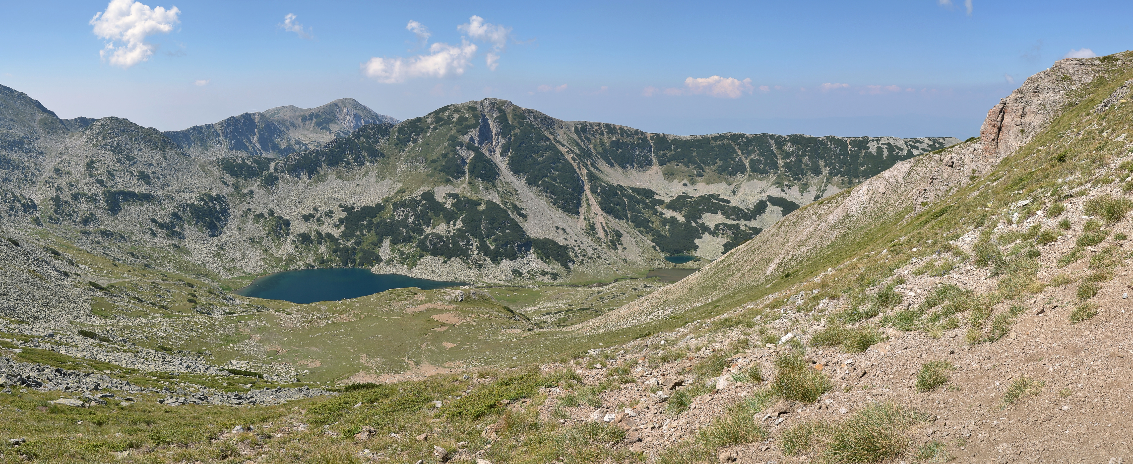 Pirin, Bulgaria - Vlahini Lakes (Влахини езера). View from Kabata pass